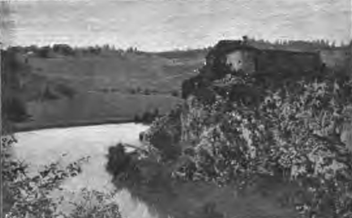 This photograph of Zvečaj castle in Croatia was probably taken some time before 1893, the date of the death of the author, but it was published posthumously.